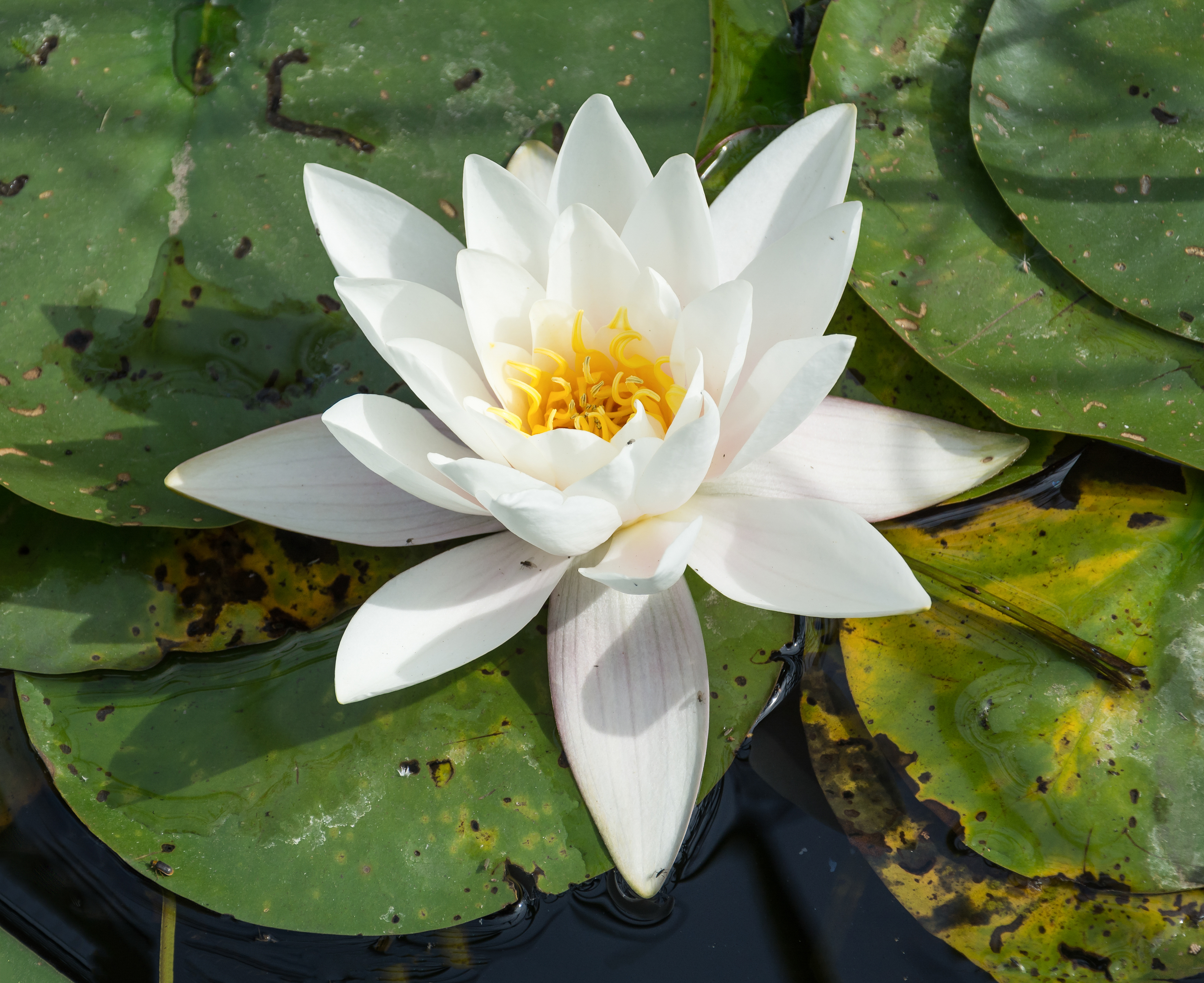 White water lily (Nymphaea alba L.)